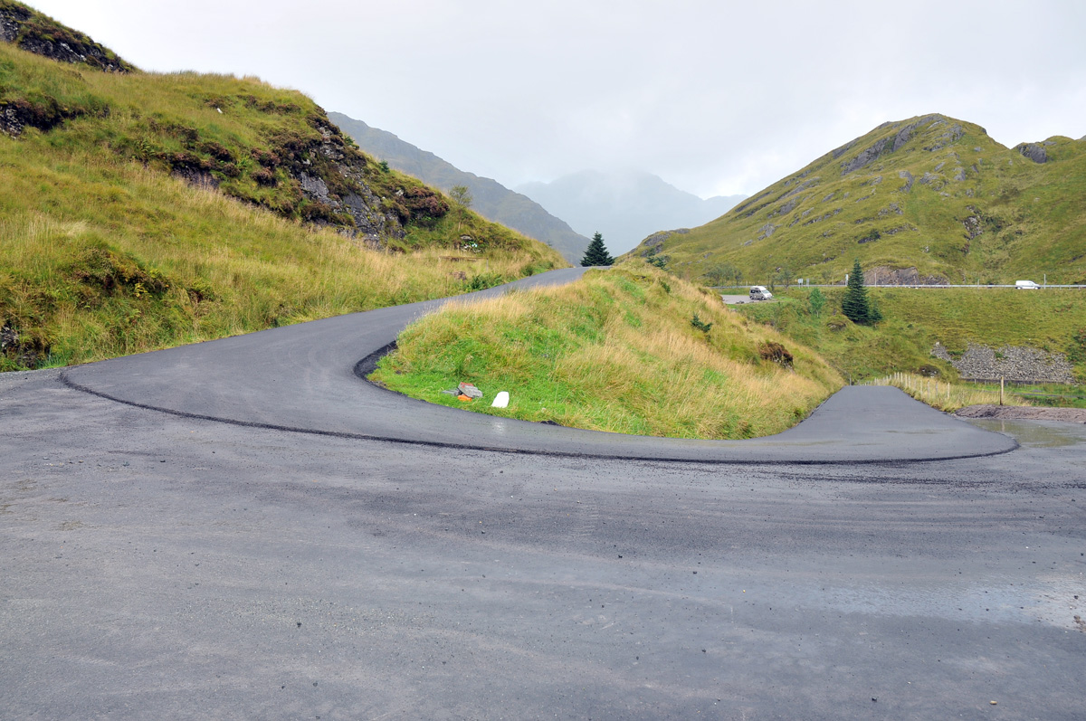 Widened hairpin on the old "Rest"